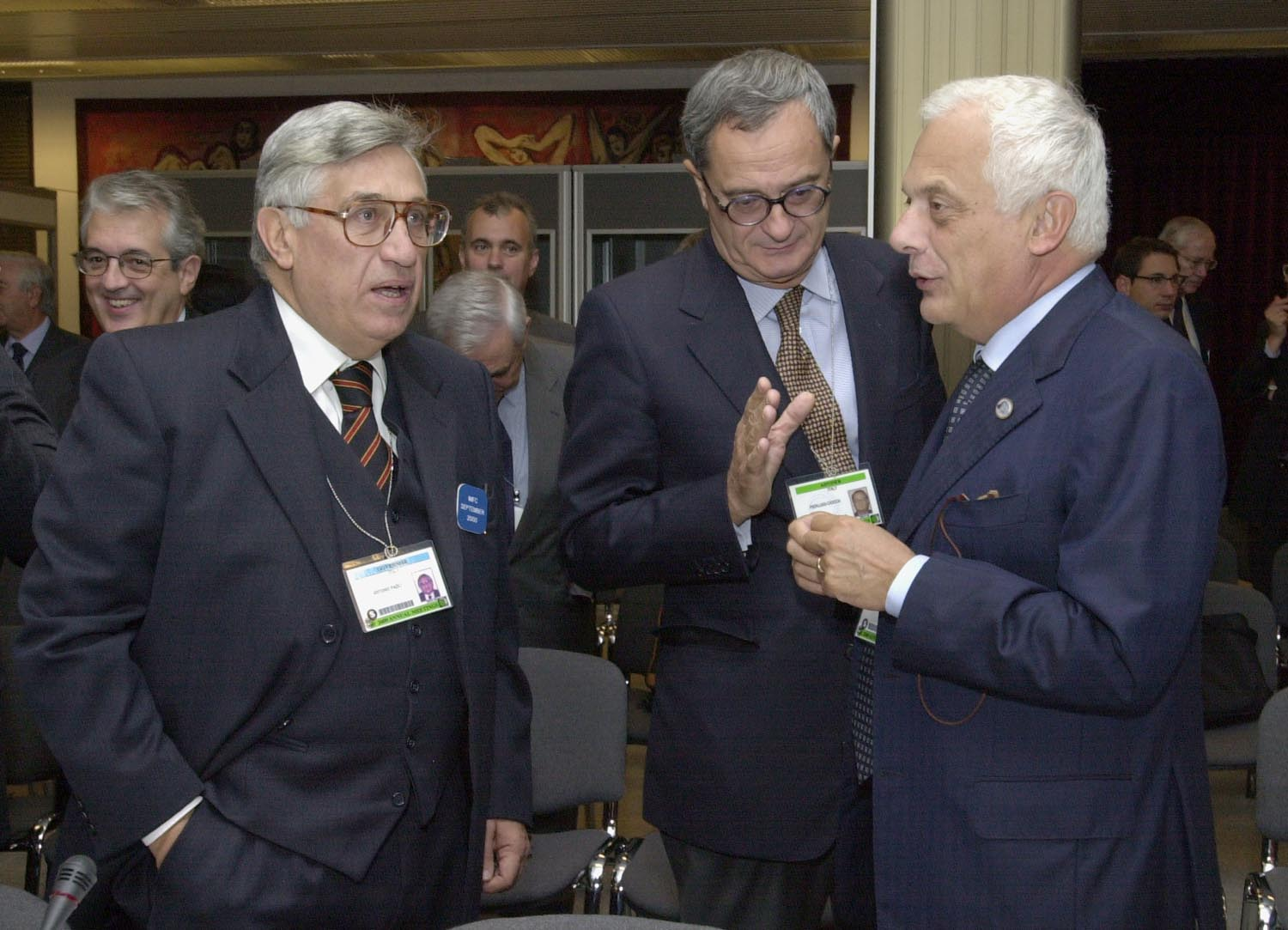 Bank of Italy Governor Antonio Fazio, left, talks with Italian Treasury Minister Vincenzo Visco, right, ahead of the International Monetary and Financial Committee meeting.